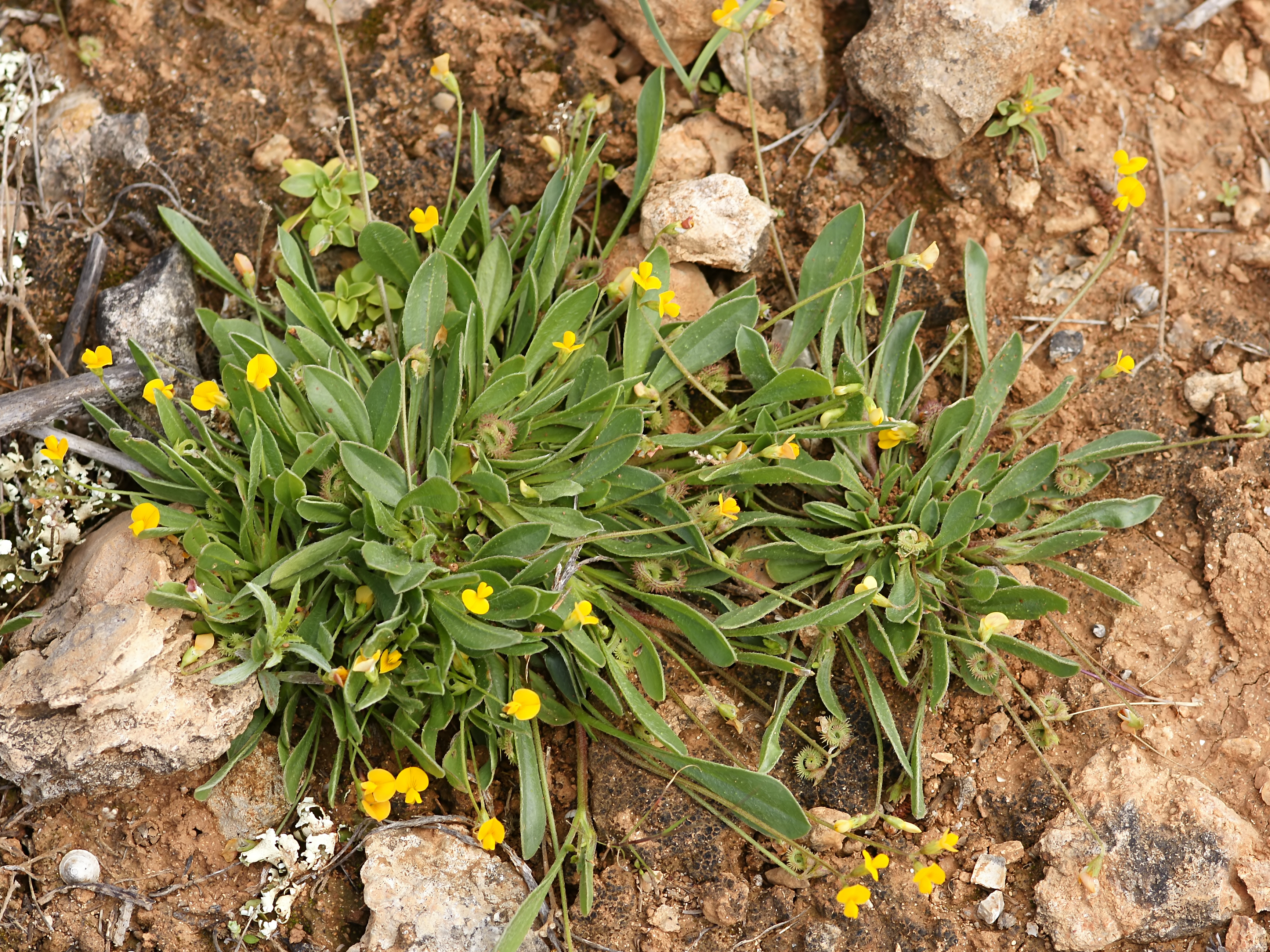 Prickly Caterpillar near Cala Ses Salinas, Mallorca.